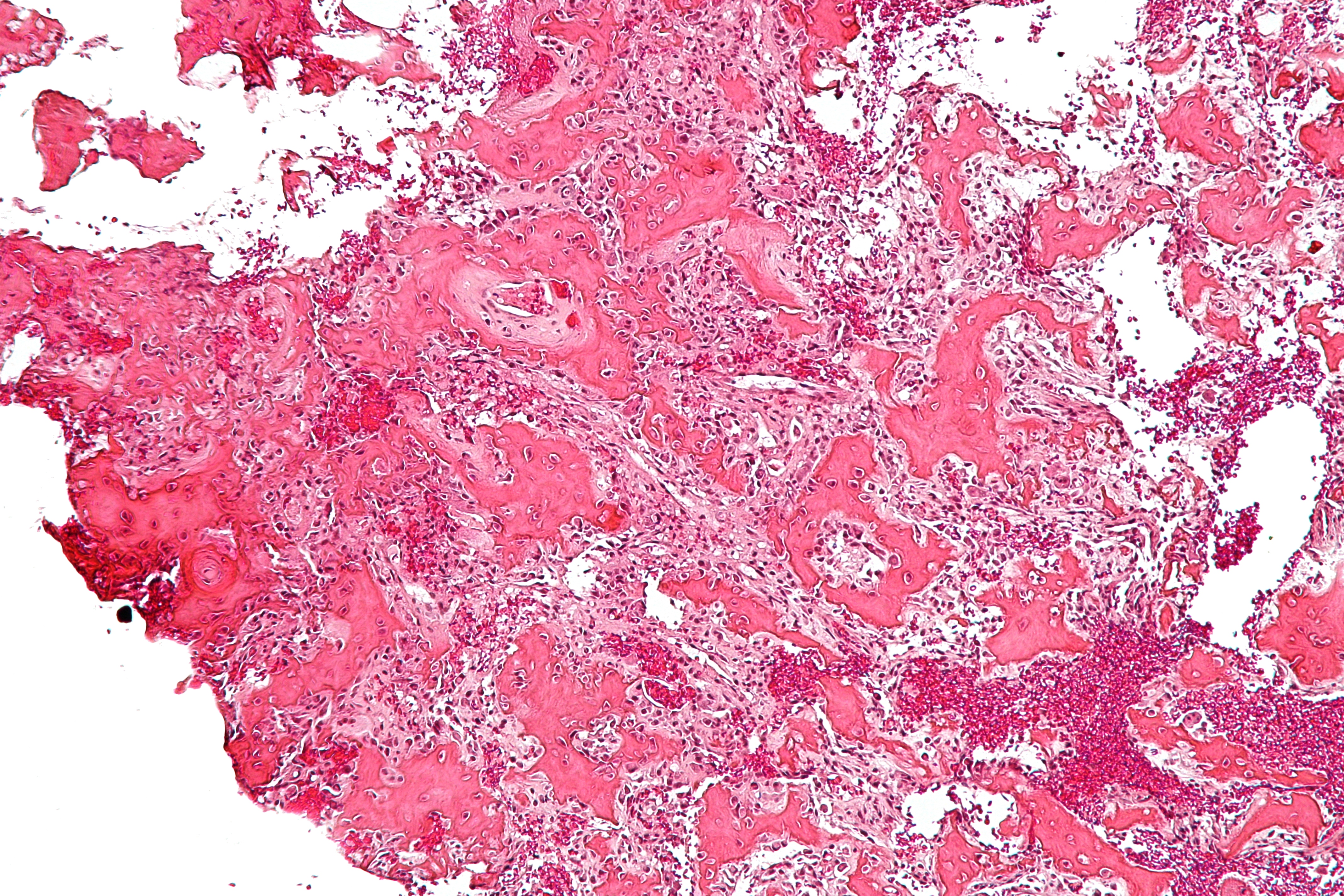 Intermediate magnification micrograph of an osteoid osteoma. H&E stain. Related images Low mag. Intermed. mag. High mag. Very high mag.